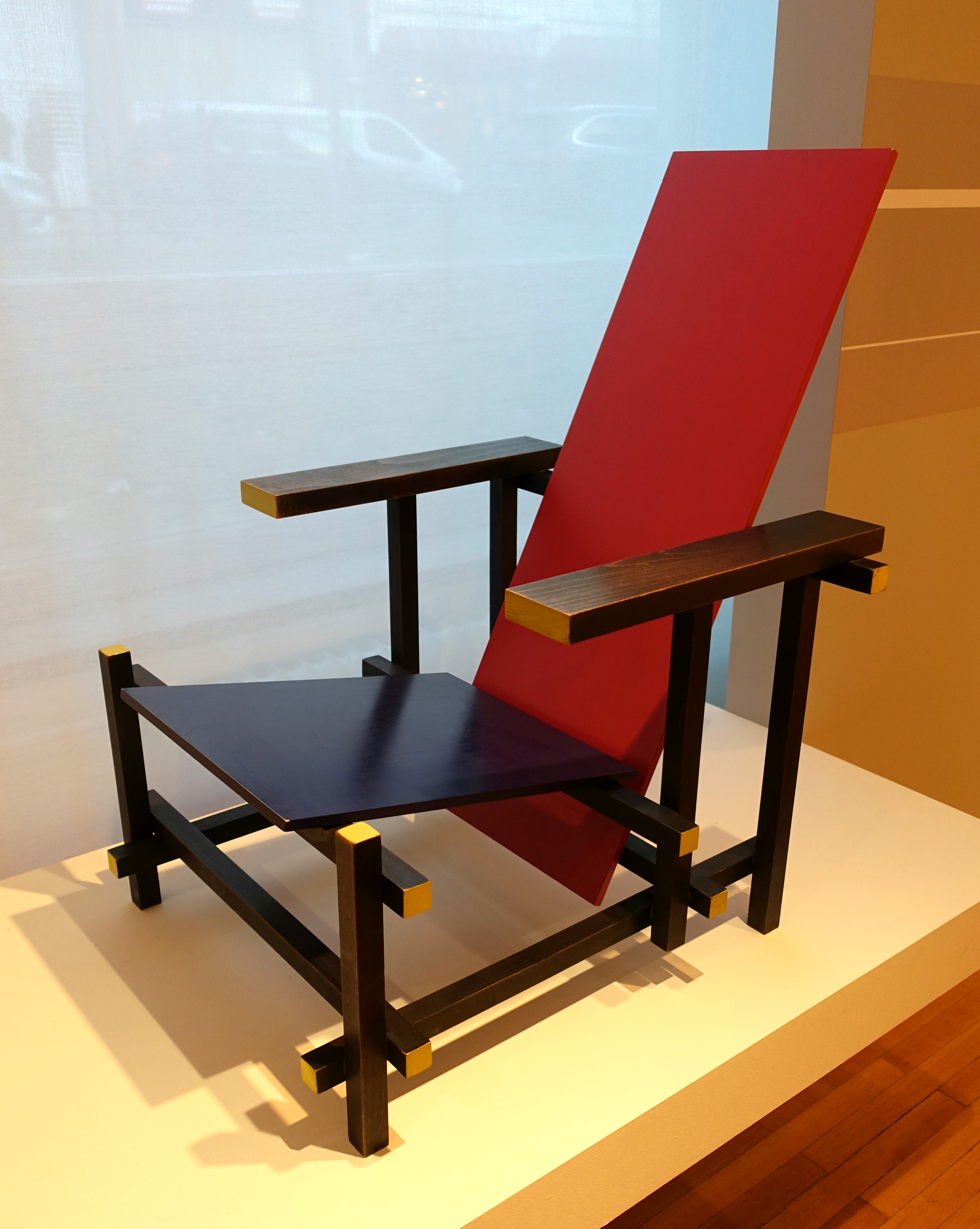 Exhibit in the Museum für Angewandte Kunst Köln - Cologne, Germany. As a utilitarian object, this work is NOT subject to copyright laws. In Finland, the EU, and Russia, design rights are granted for a maximum of 25 years. This protection period has passed, and hence this work is now in the public domain.